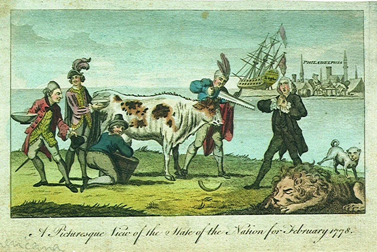 A Picturesque View of the State of the Nation for February 1778 (caricature) Technique includes engraving.